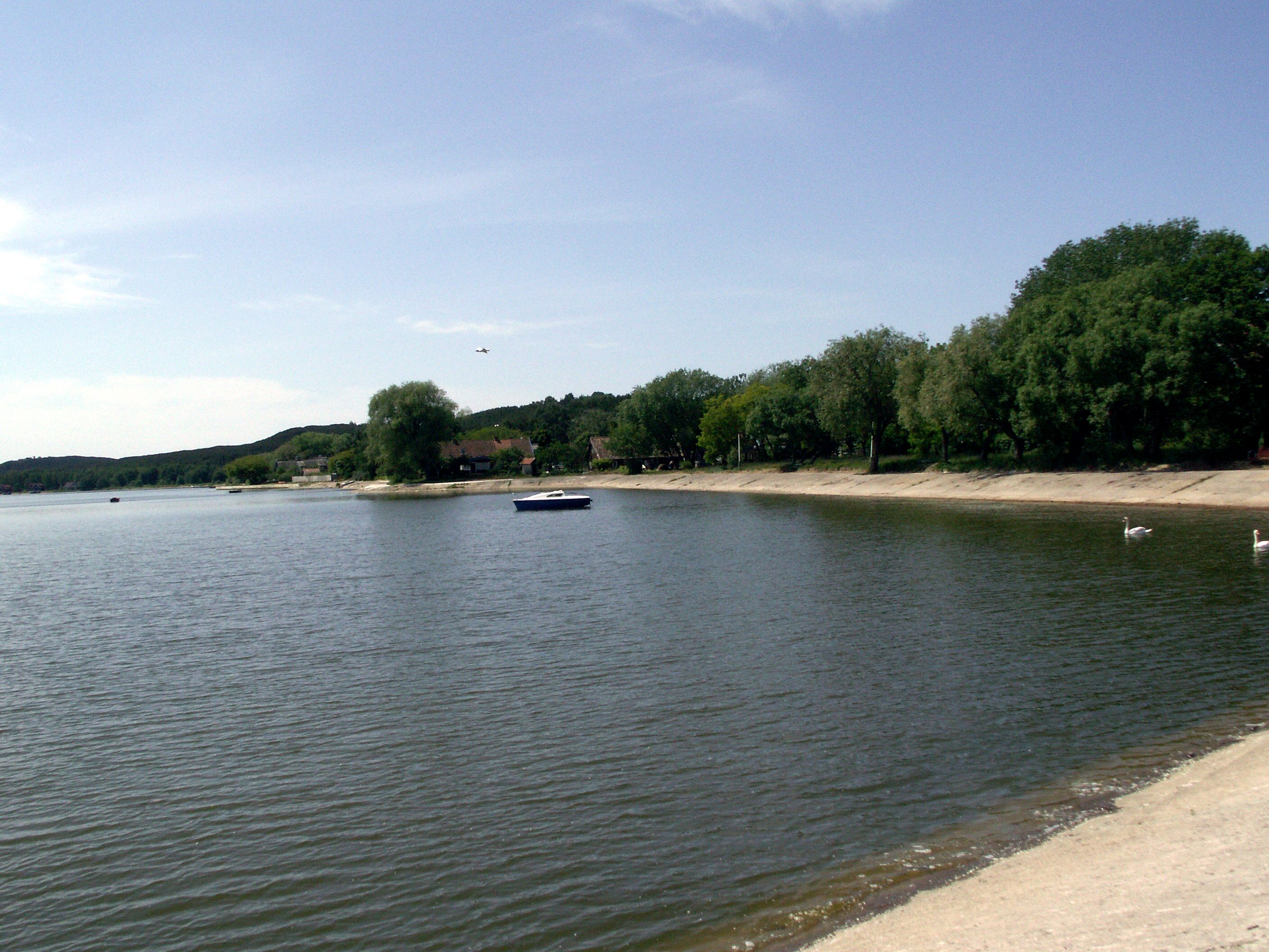 Preila, Neringa, Lithuania